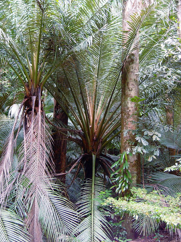 Oraniopsis appendiculata on Mt. Lewis. These are on the banks of a creek part way up the mountain.